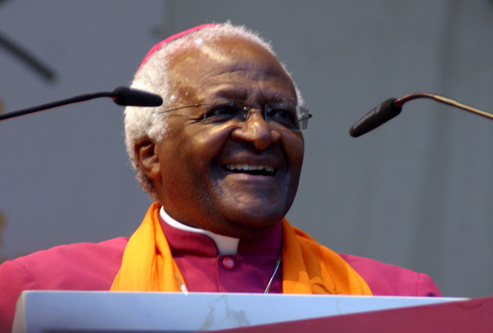 Desmond Tutu 2007 at the Deutscher Evangelischer Kirchentag in Cologne 2007